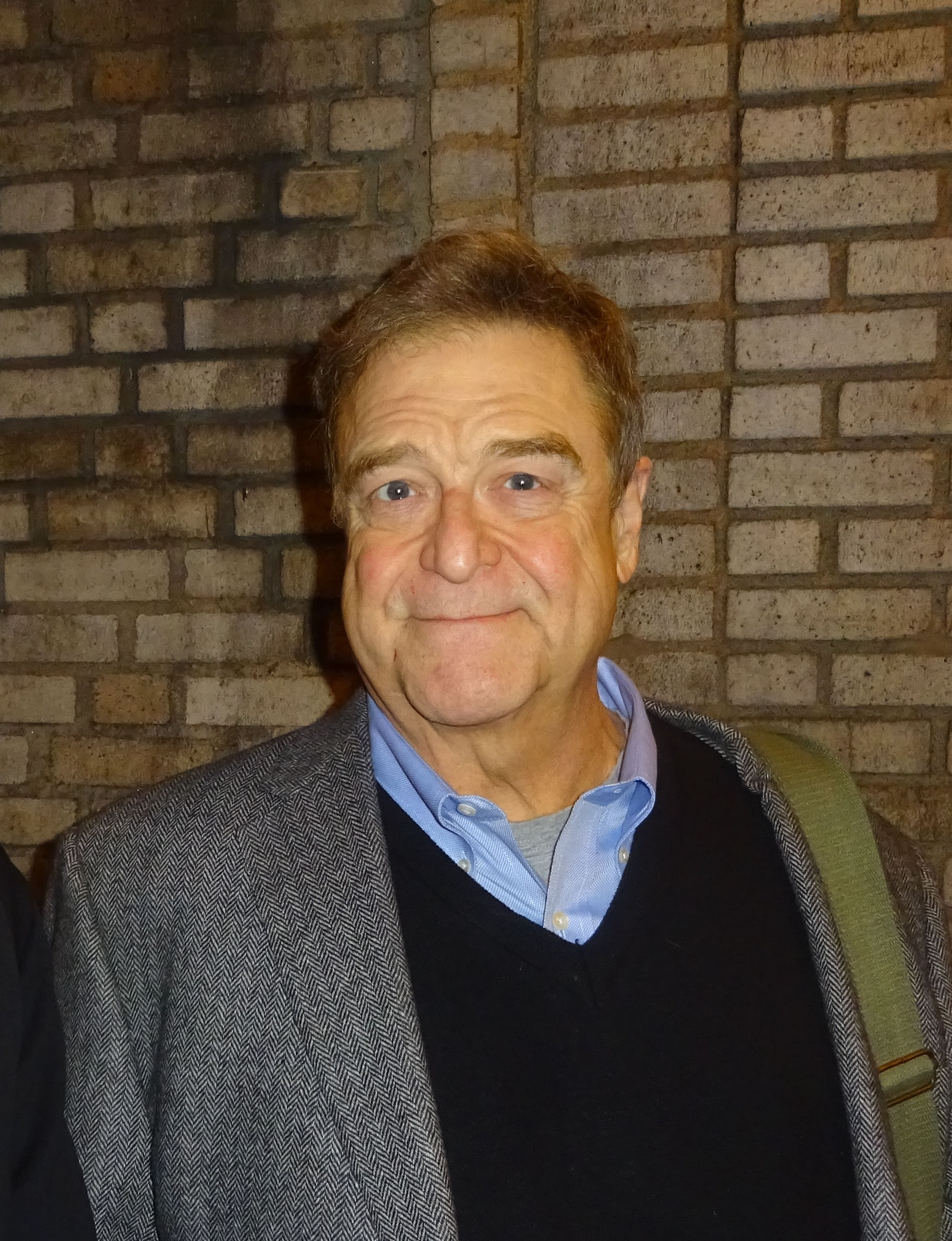 Iconic actor, star of Roseanne, Revenge of the Nerds, Raising Arizona, Arachnophobia, King Ralph, Blues Brothers 2000, and The Big Lebowski. NYC Nov '16.